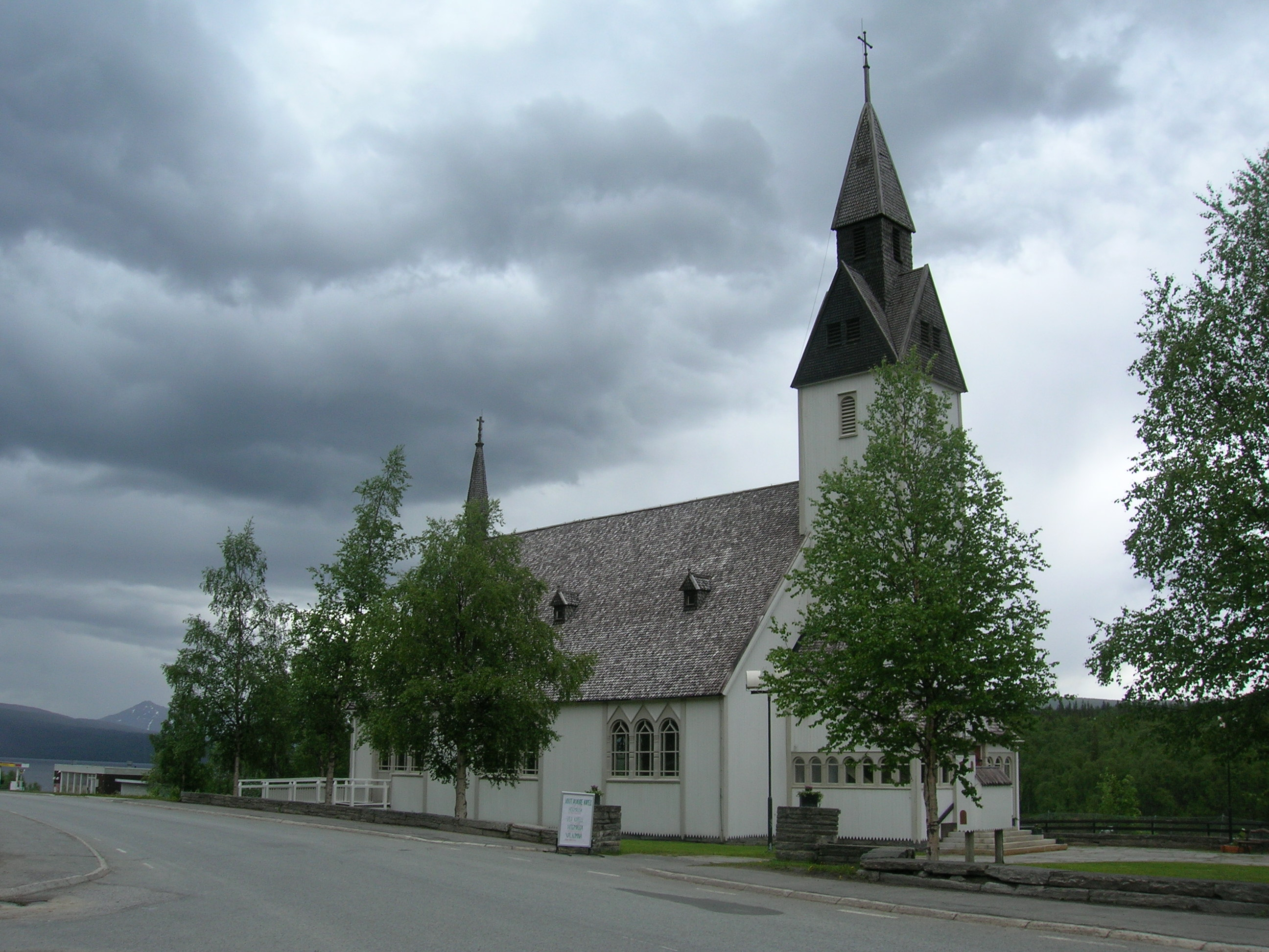 Tärna church in Tärnaby, Storuman municipality, Sweden, Photo 21 June, 2008 with a Nikon Coolpix 5600 5,1 Megapixel camera.